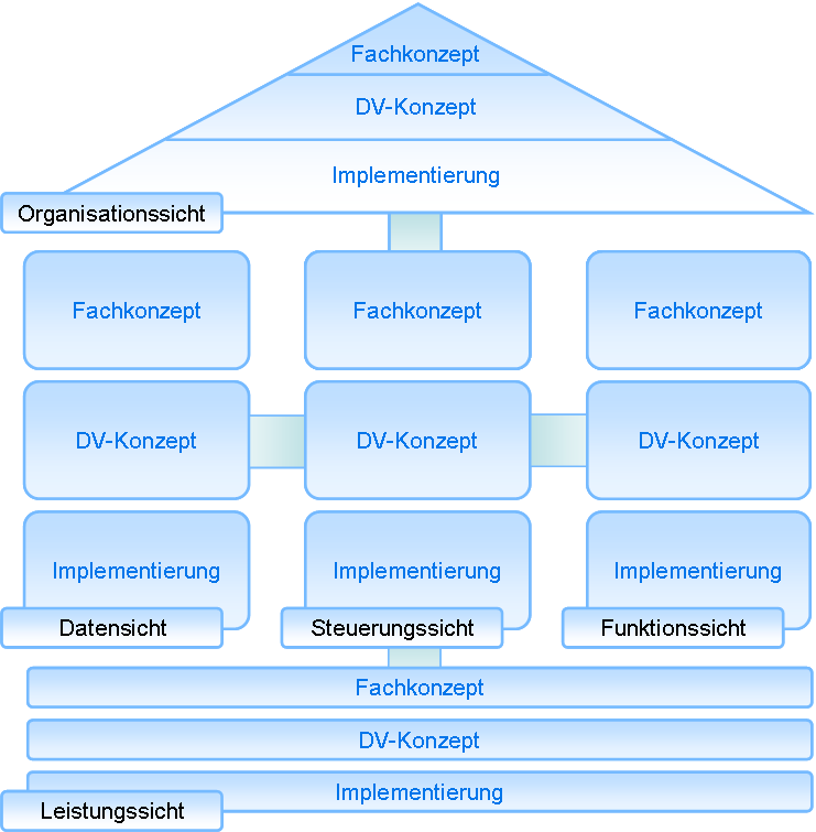 ARIS model